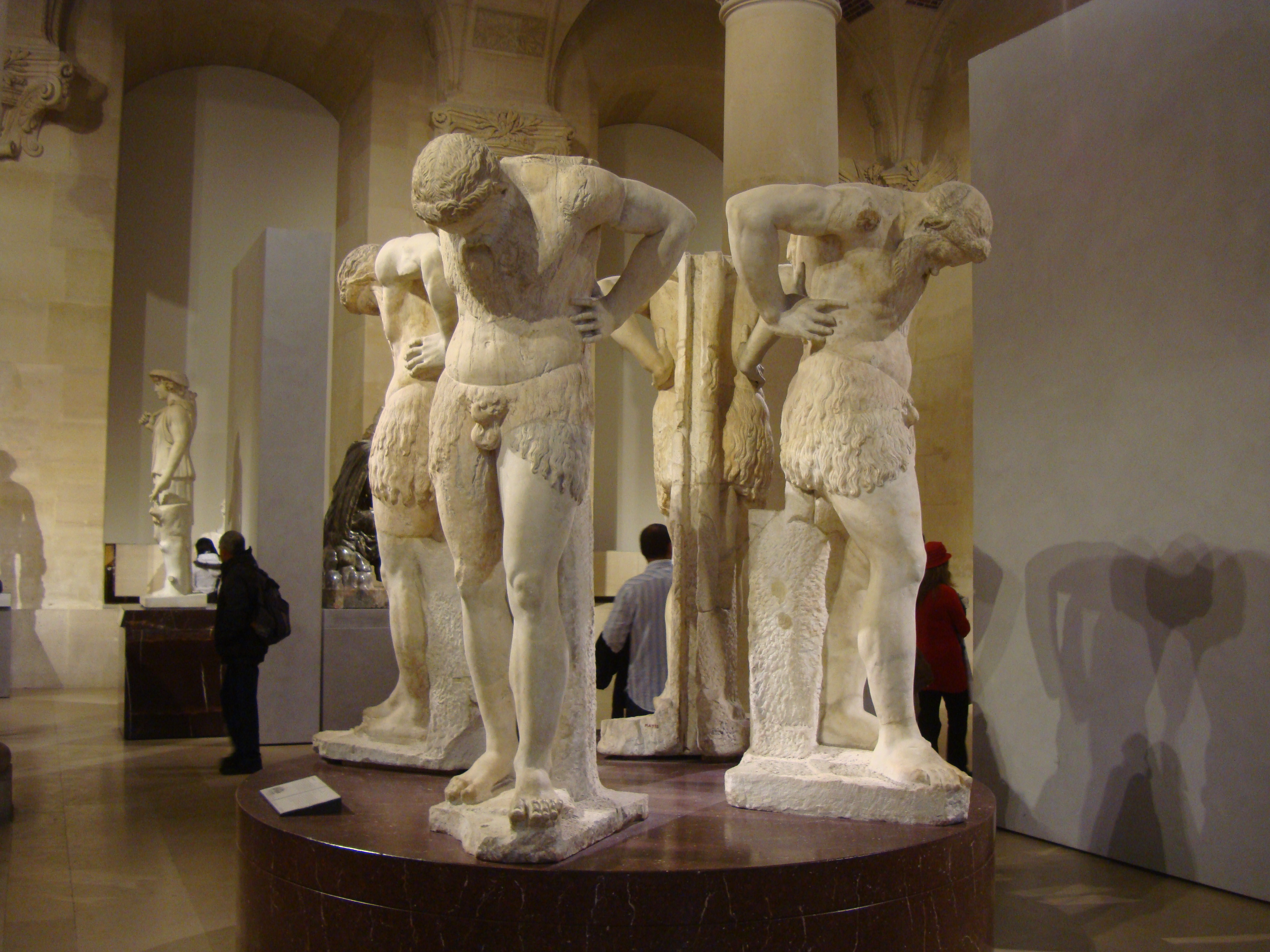 Four large statues of satyrs looking down all standing in a circle at the Louvre, II century after J.C., Rome